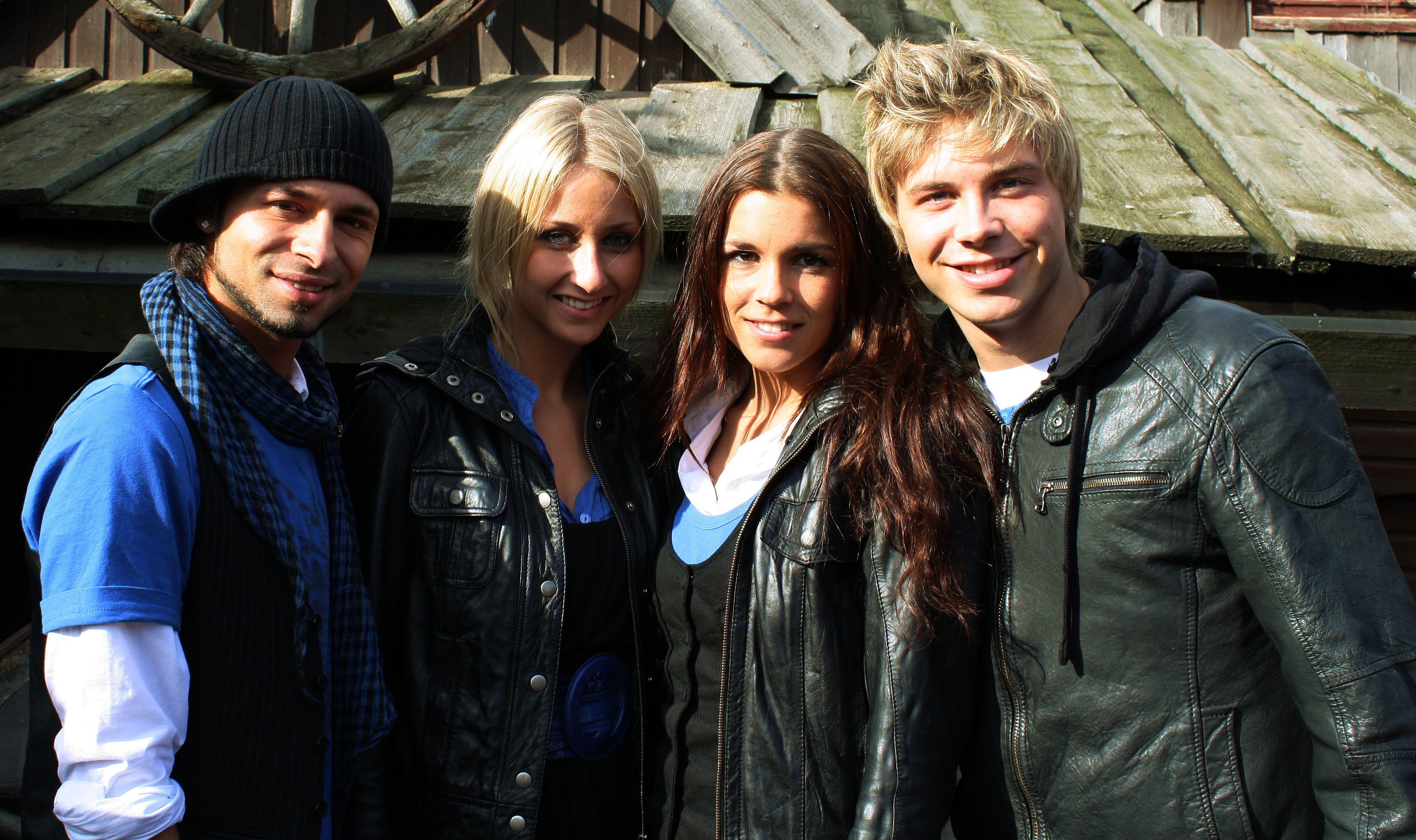 beFour in 2008